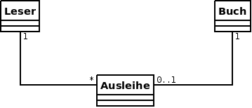 A UML class diagram showing a resolved association class.